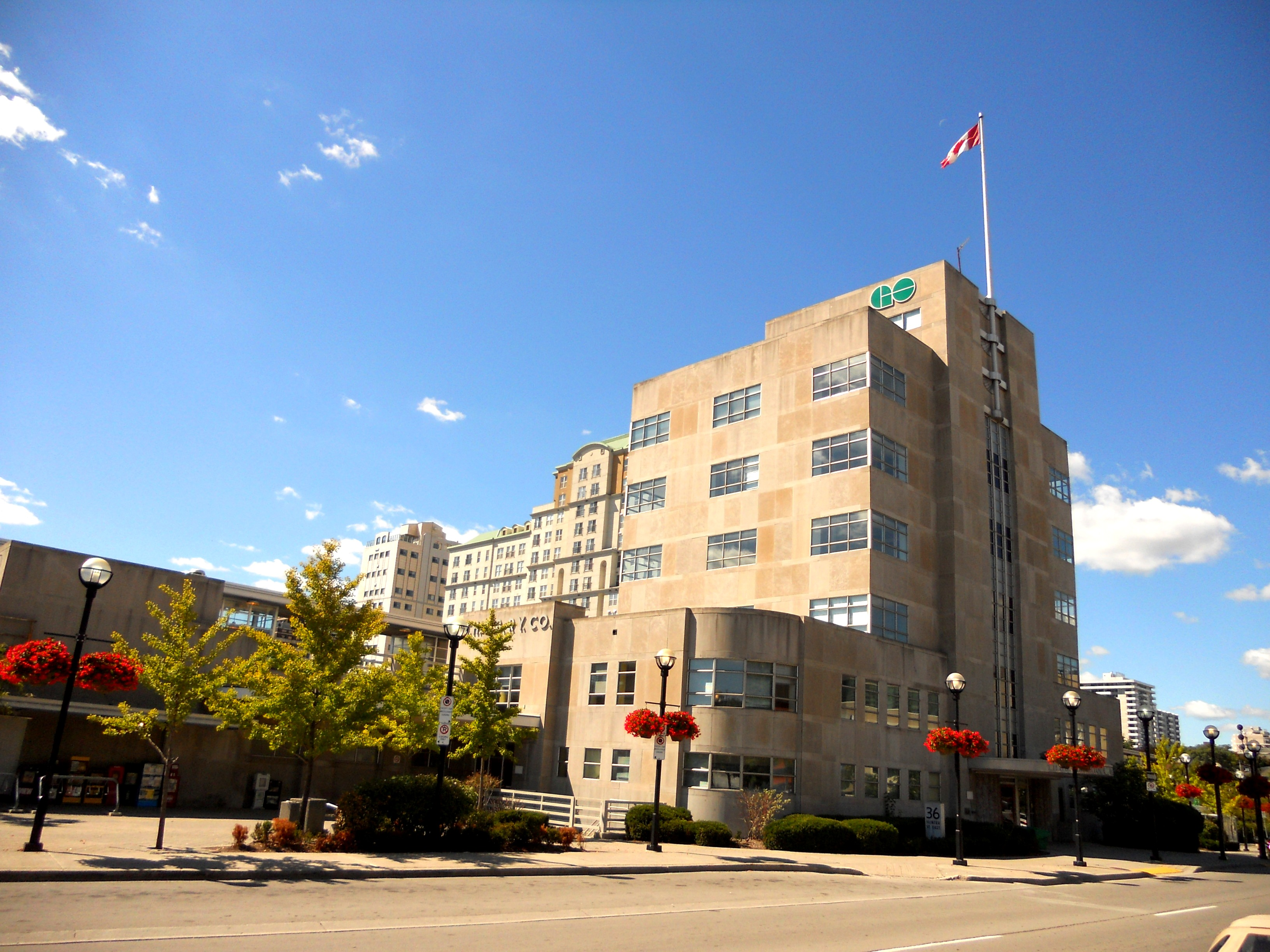 Toronto, Hamilton & Buffalo Railway Station, Former